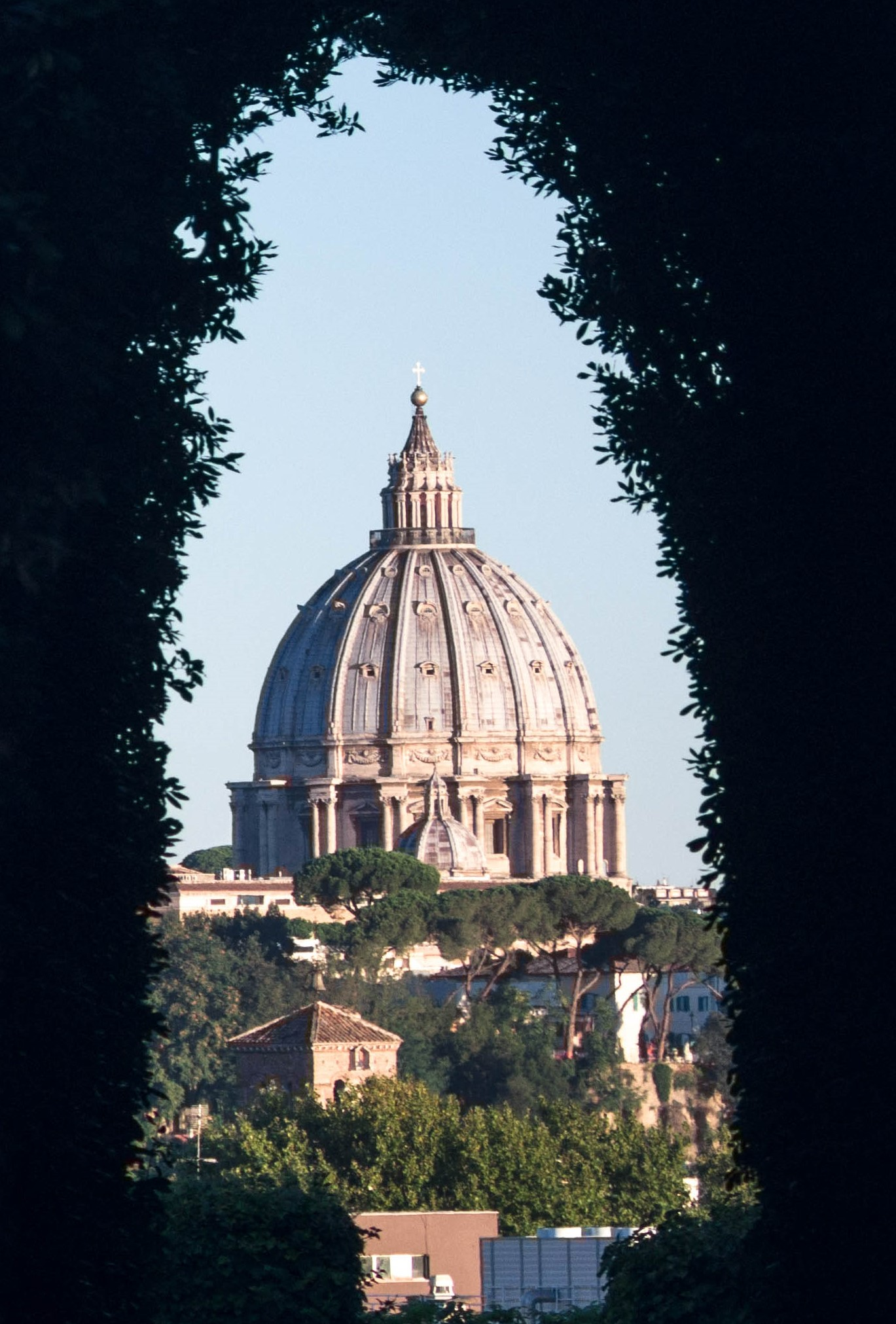 View of St. Peter through the "holy keyhole" of Santa Maria del Priorato